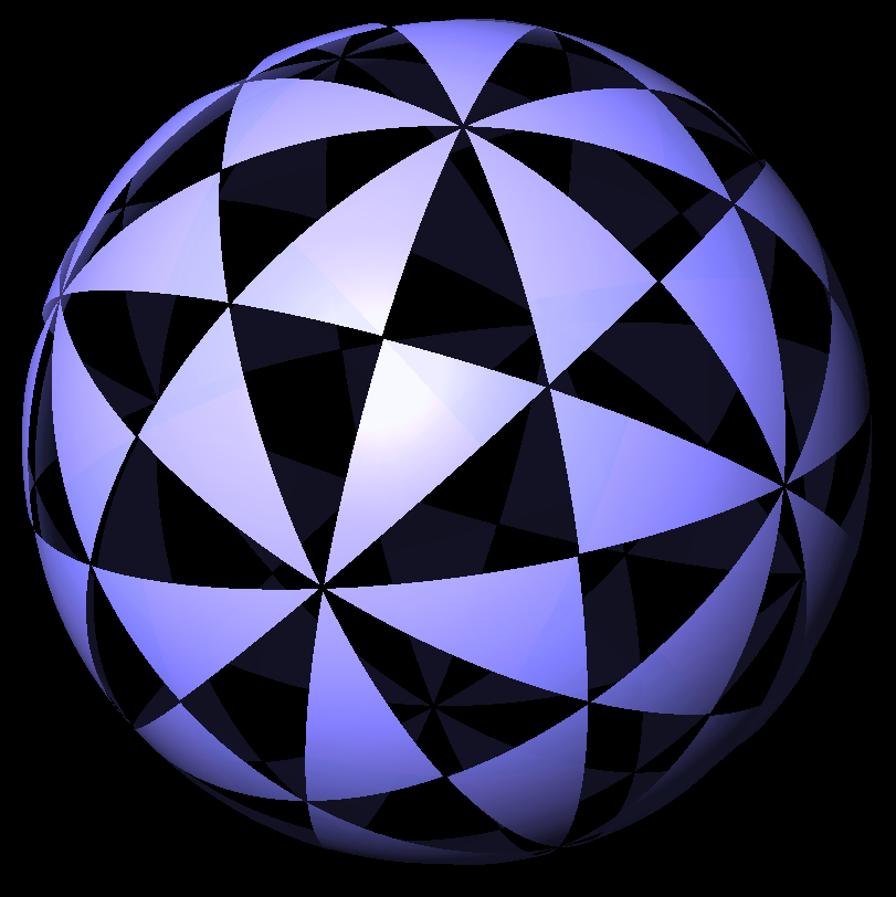 KaleidoTile, Topology and Geometry Software, Jeff Weeks Spherical domains for tetrahedral symmetry